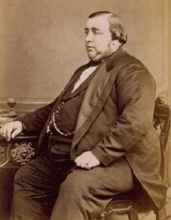 Carte de visite of Arthur Orton photographed by Maull & Co. Photographers, c.1872